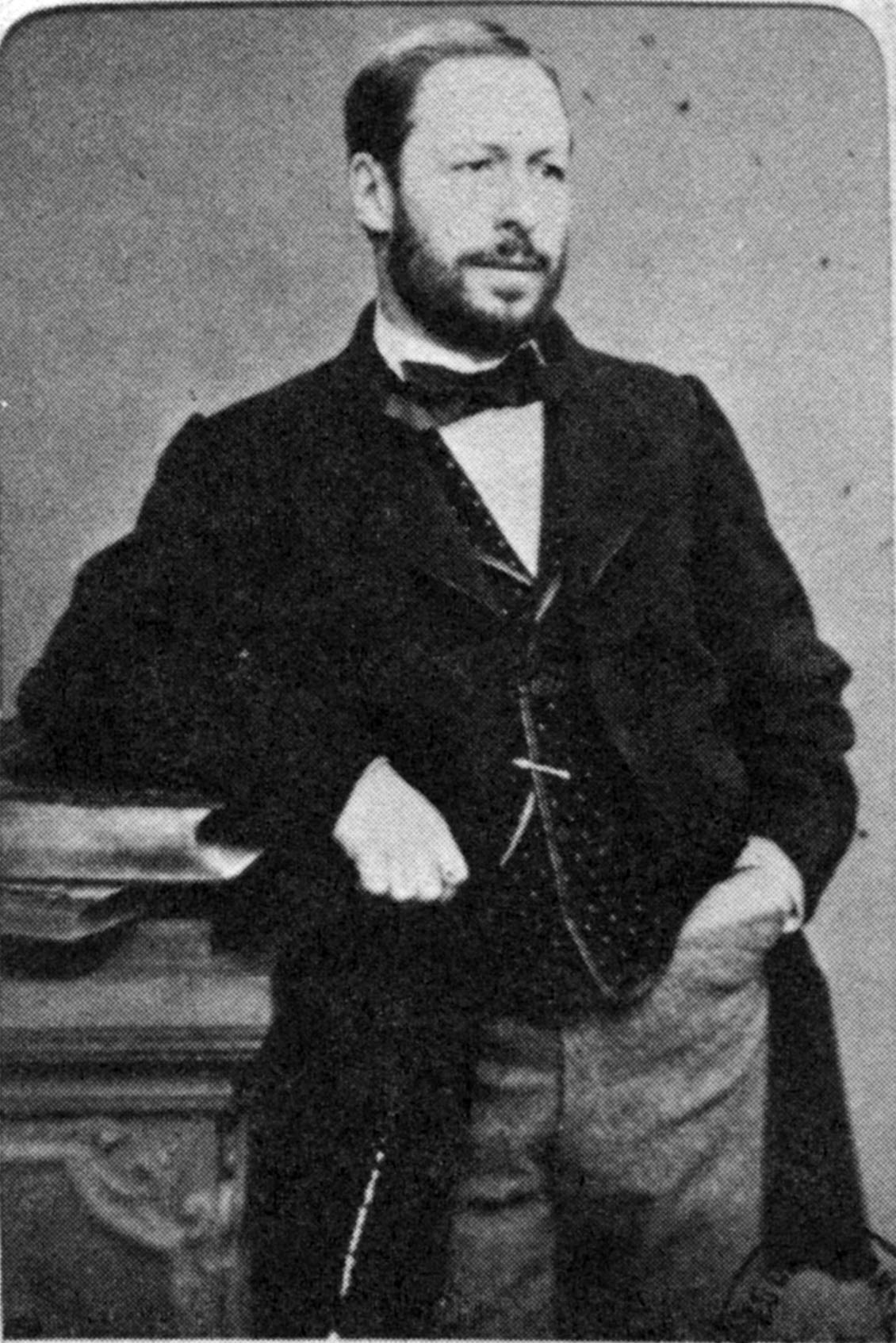 Photographic portrait of the French composer Ernest Boulanger taken about 1872